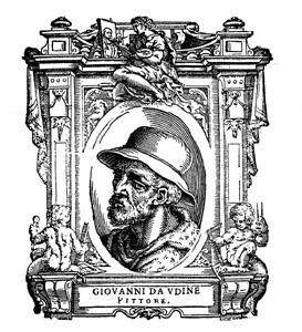 Illustratio from "Le Vite" by Giorgio Vasari, edition of 1568. For the artist portrayed see filename